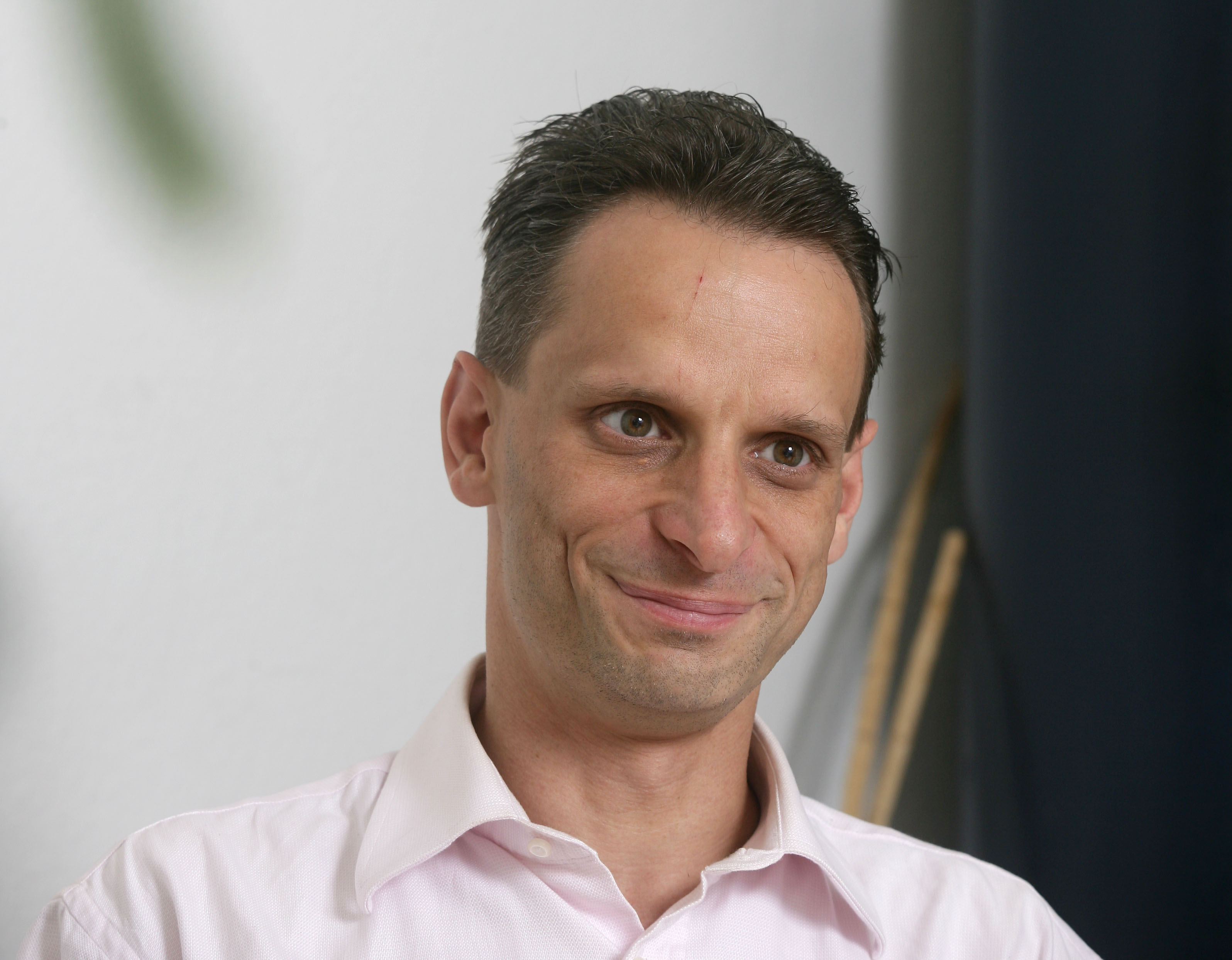 Mathias Binswanger